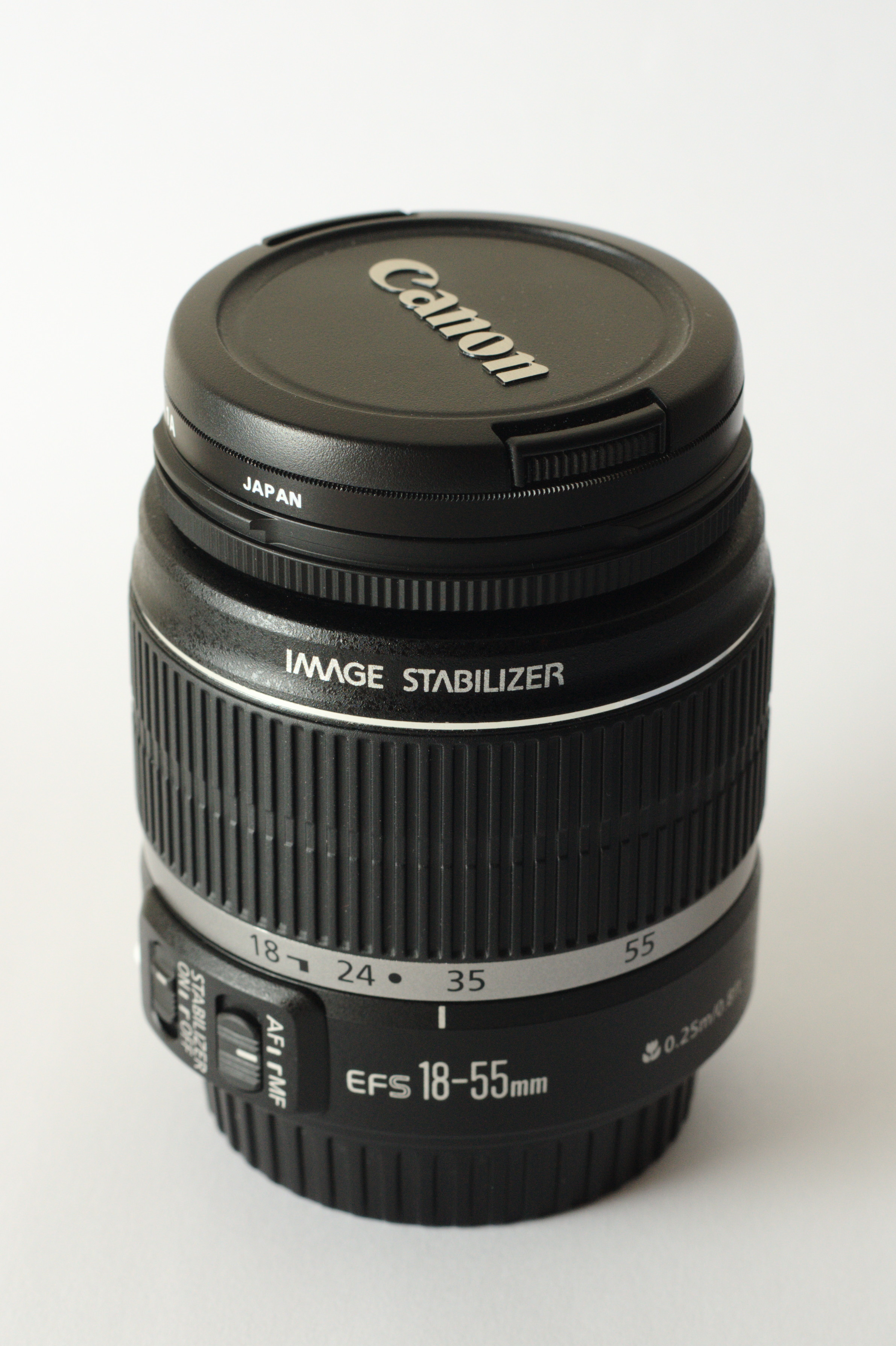 The Canon EF-S 18-55mm IS Lens